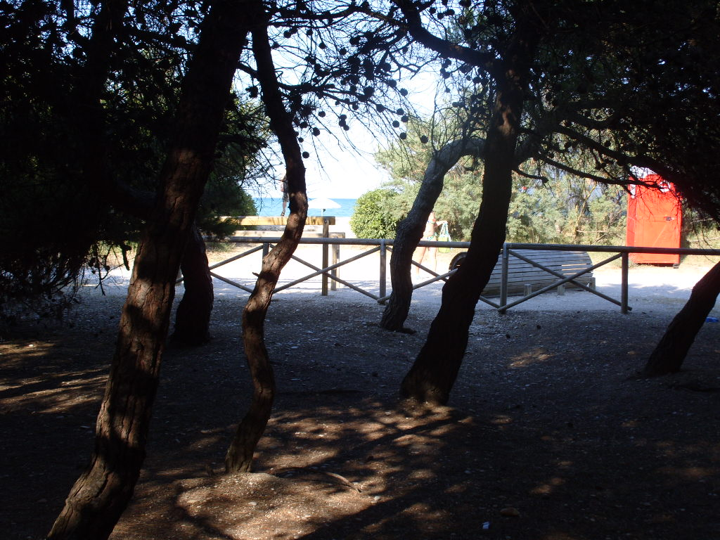 Pinewood at Porto Sant'Elpidio and sight of the beach